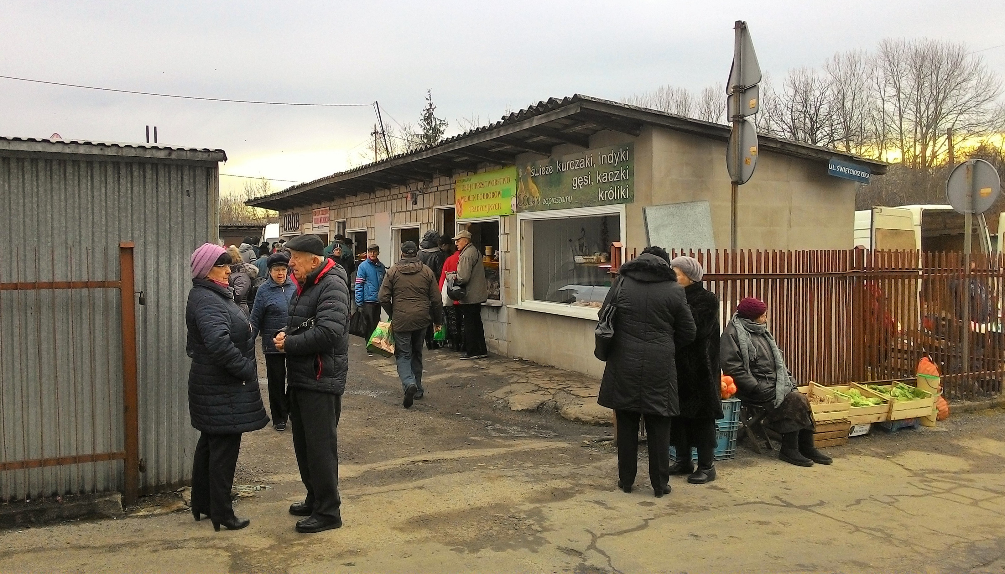 The marketplace in Olkusz, Poland.